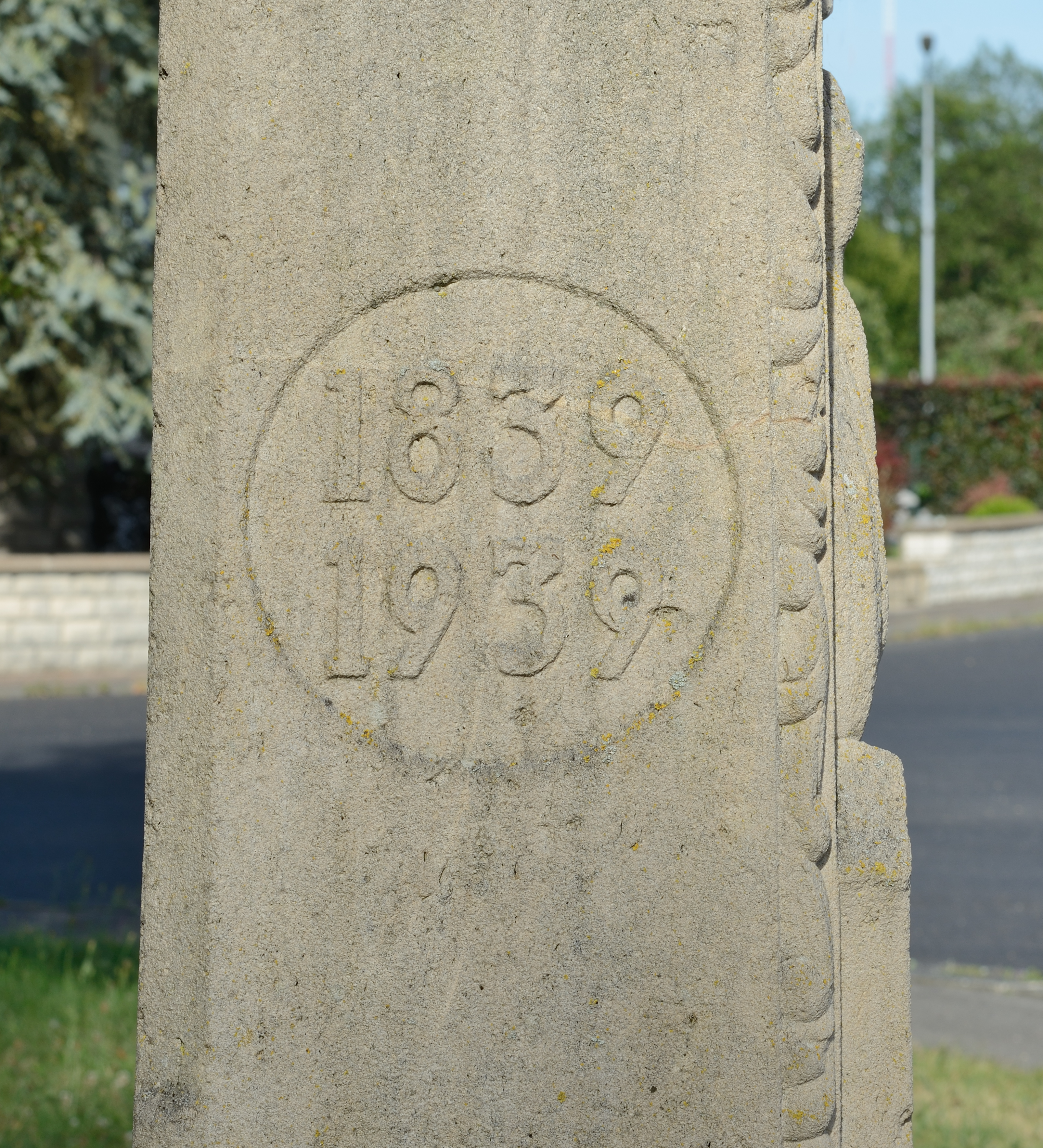 Luxembourg, Beidweiler: left side (East) detail of the monument of 1939 commemorating the 100th year of the independence of the Grand-Duchy of Luxembourg.